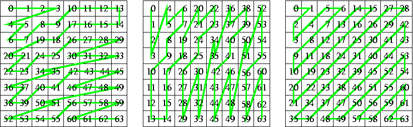 MPEG-4 inverse scanning